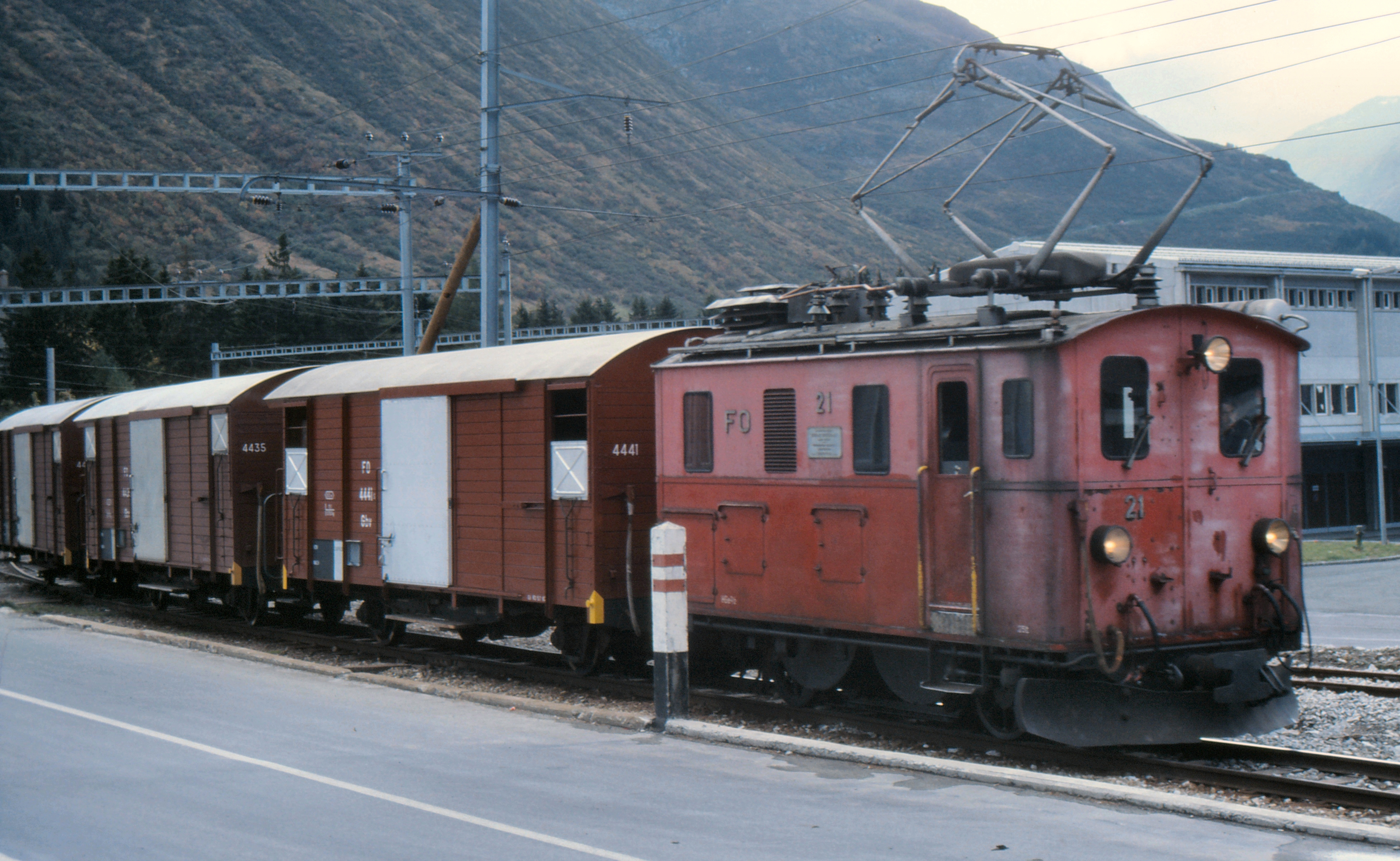 HGe 2/2 Swiss Rail MGB old FO /SchB, in Andermatt with Freight Train